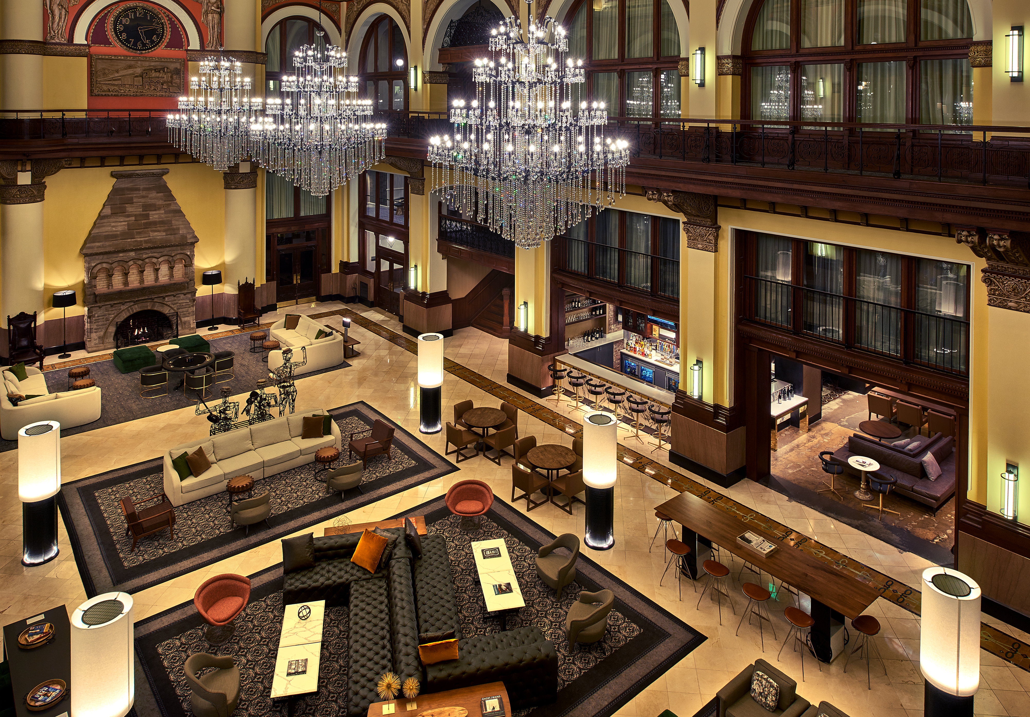 Transformed in 2016, the hotel lobby boasts uniquely Nashville artwork and three, stunning chandeliers